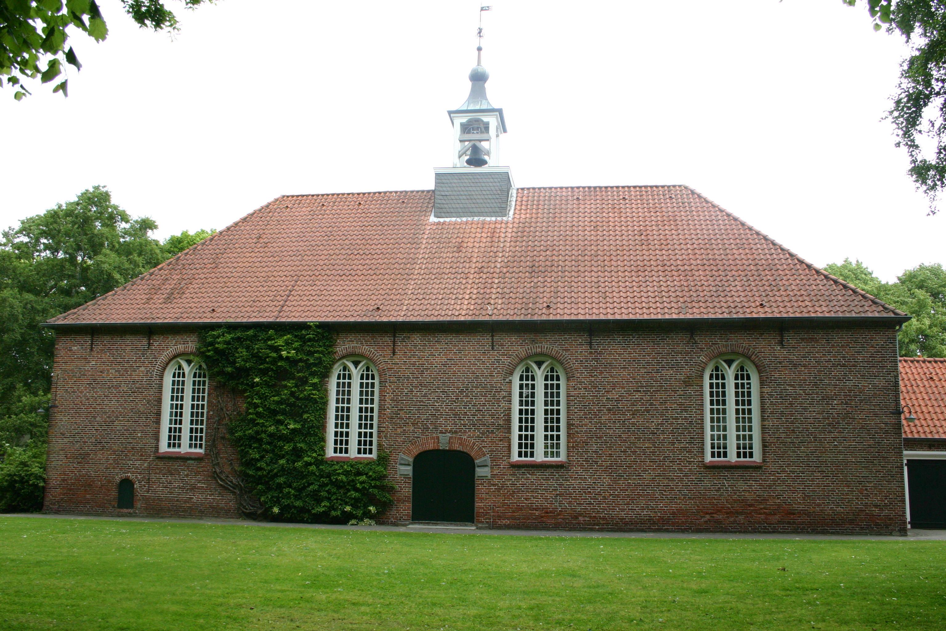 Historic church in Bargebur, district of Aurich, East Frisia, Germany